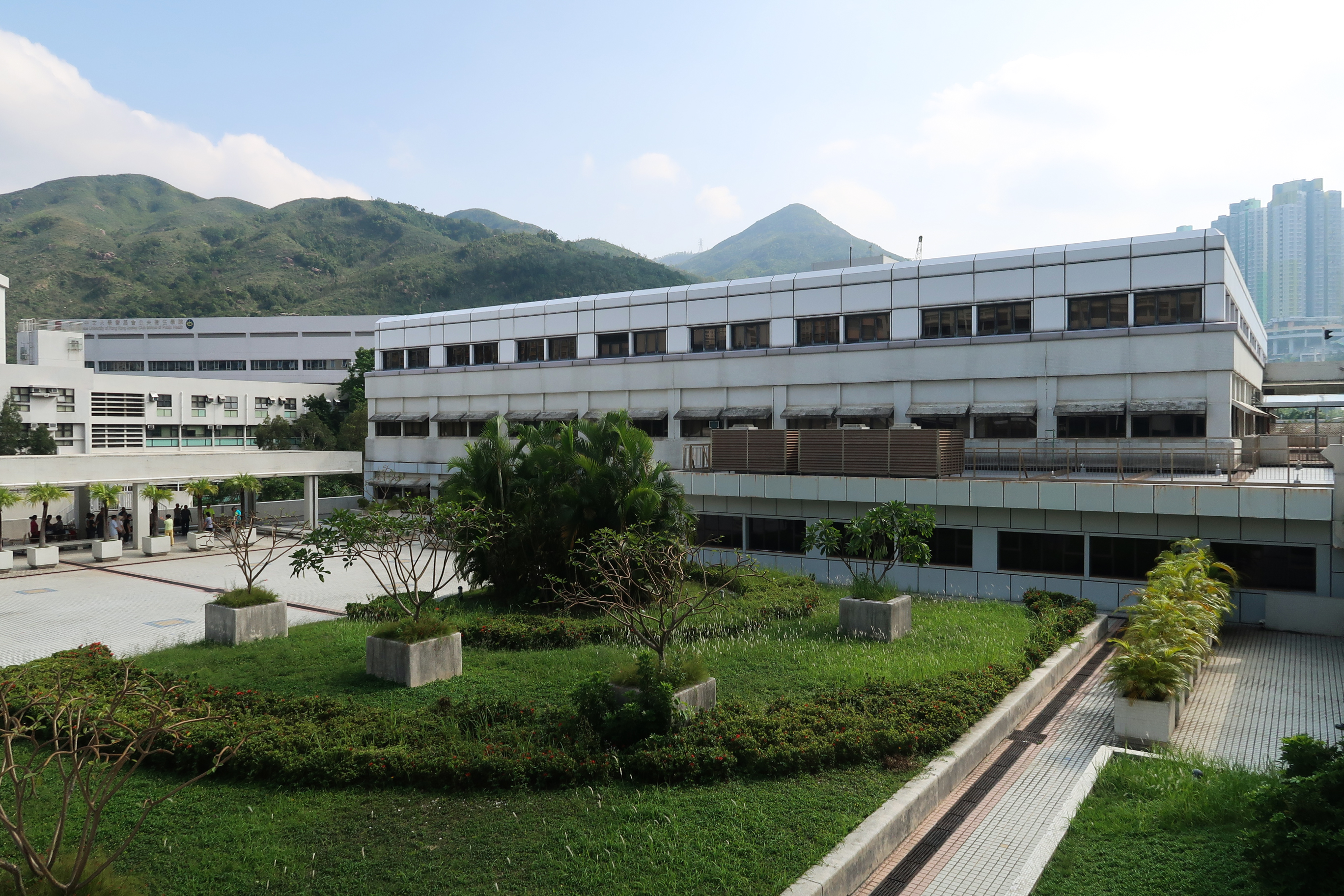 Li Ka Shing Specialist Clinics